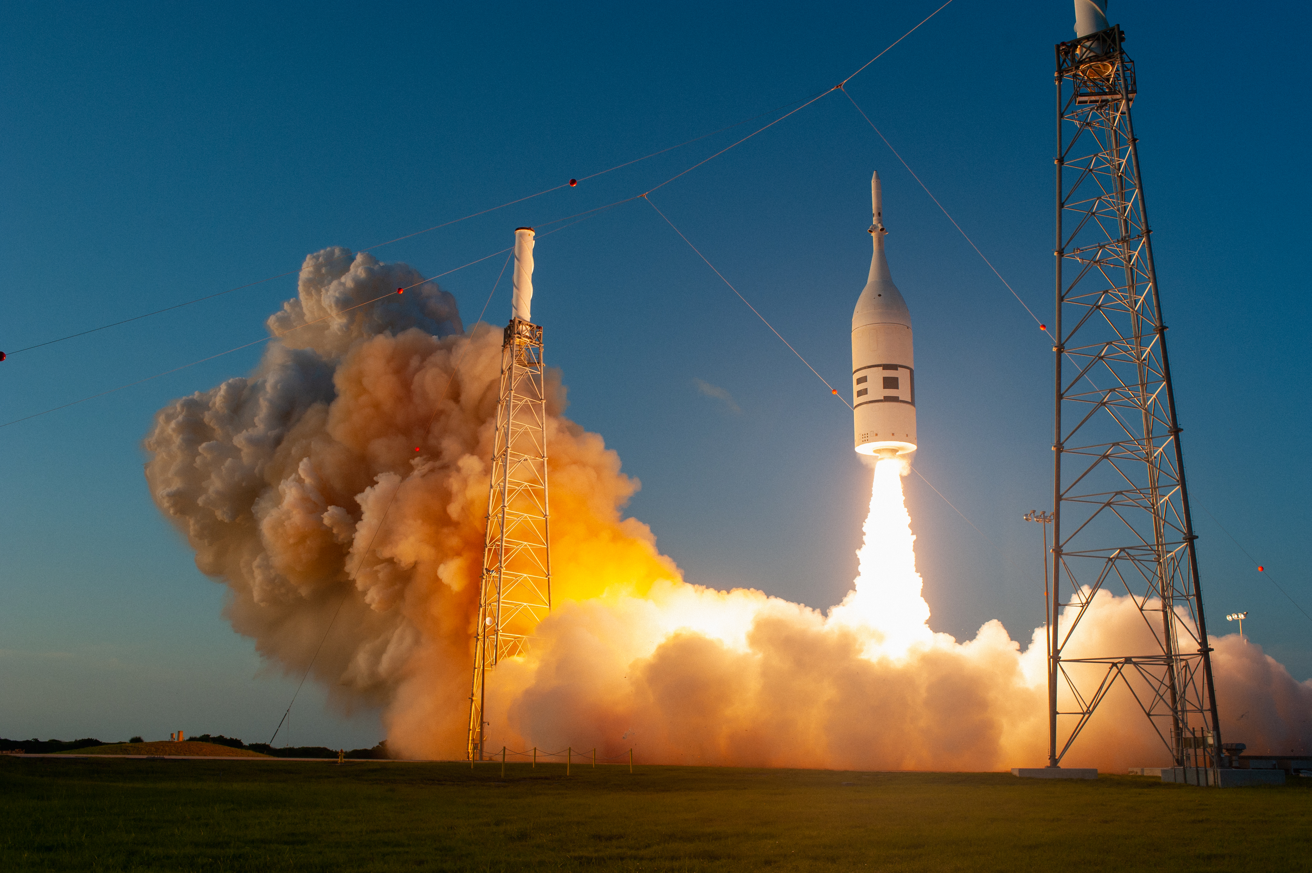 A fully functional Launch Abort System (LAS) with a test version of Orion attached, launches on NASA’s Ascent Abort-2 (AA-2) atop a Northrop Grumman provided booster on July 2, 2019, at 7 a.m. EDT, from Launch Pad 46 at Cape Canaveral Air Force Station in Florida. During AA-2, the booster will send the LAS and Orion to an altitude of 31,000 feet, traveling at Mach 1.15 (more than 1,000 mph). The LAS’ three motors will work together to pull the crew module away from the booster and prepare it for splashdown in the Atlantic Ocean. The flight test will prove that the abort system can pull crew to safety in the unlikely event of an emergency during ascent.